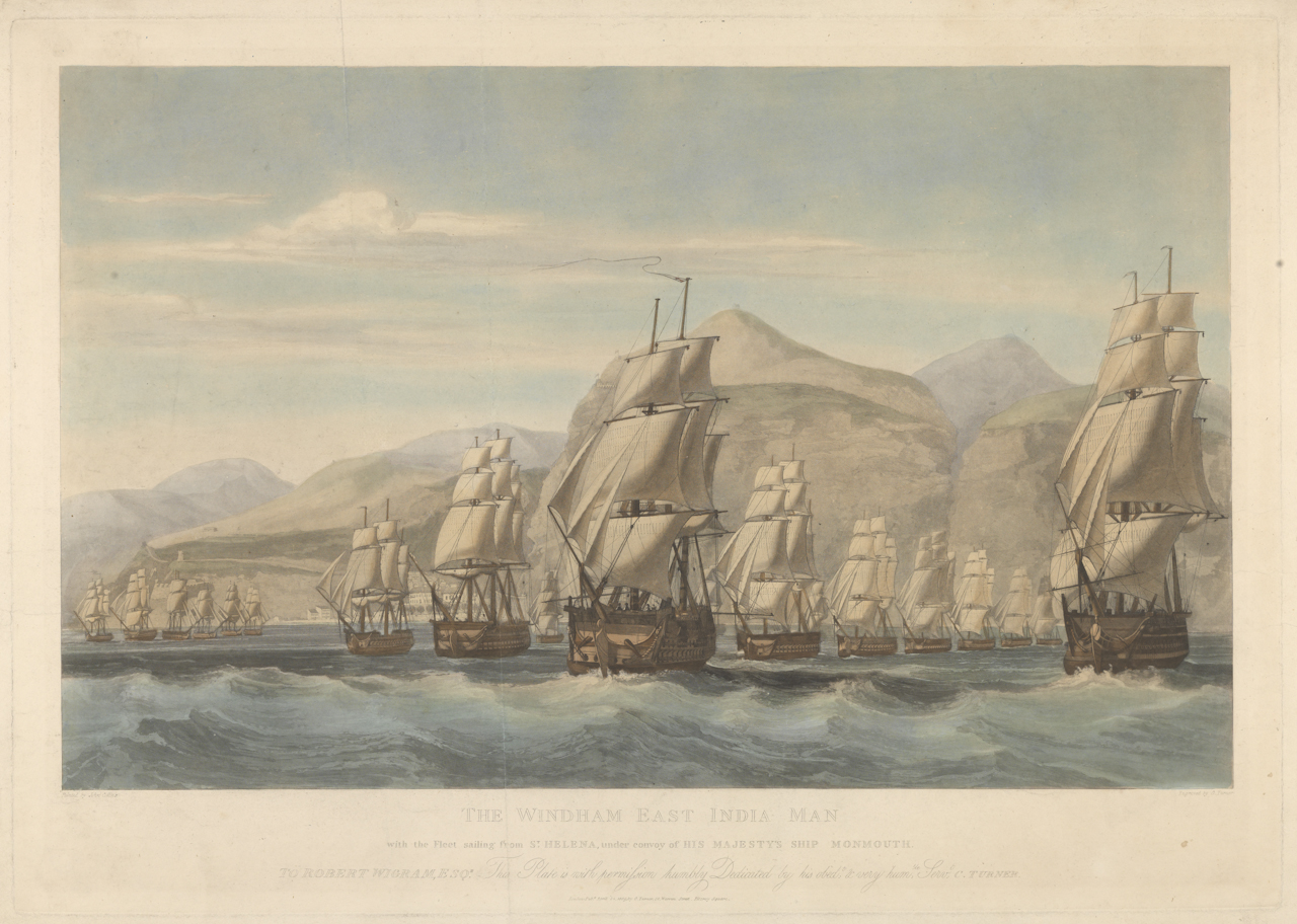 The Windham East India Man with the Fleet sailing from St Helena, under convoy of His Majesty's ship Monmouth. Monmouth returned to Britain in September 1808, having escorted another convoy of Indiamen.[1] Hand-coloured. The Windham East India Man with the Fleet sailing from St Helena, under convoy of His Majesty's ship Monmouth